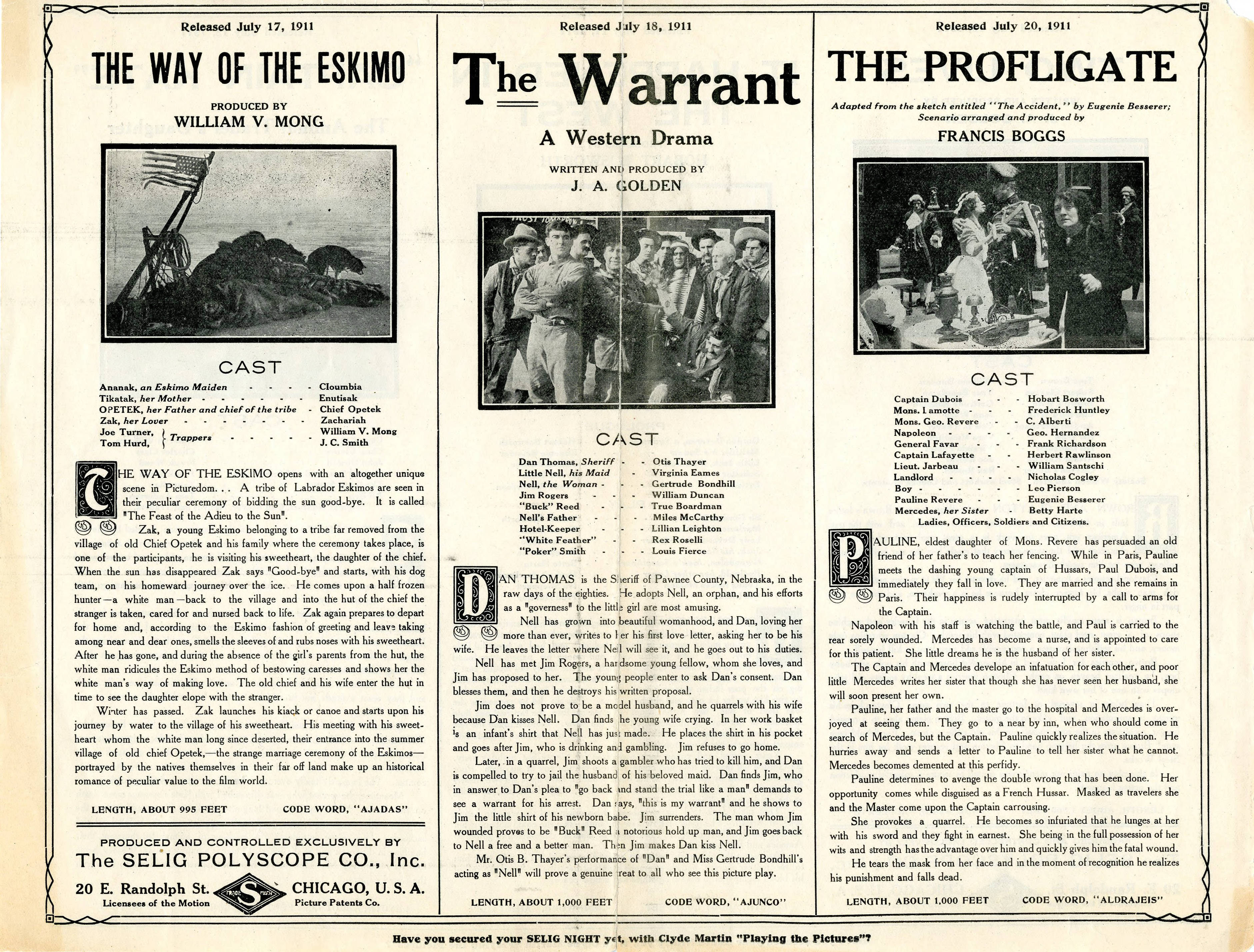 Release flier for THE WAY OF THE ESKIMO, 1911 ; THE WARRANT, 1911 ; THE PROFLIGATE, 1911